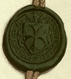 Seal of William Latimer, 1st Baron Latimer